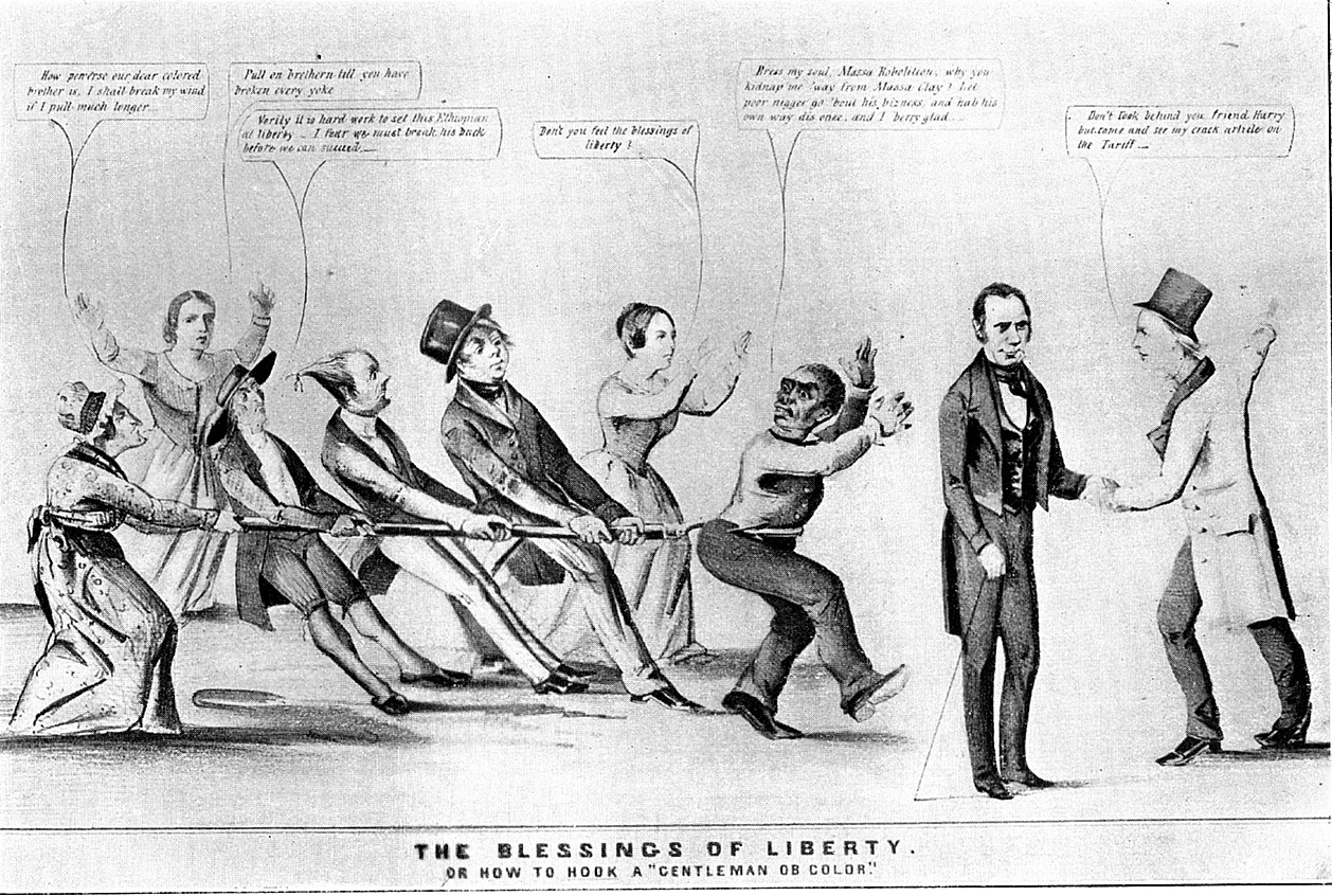 Caricature of abolitionists. Anti-Abolitionist cartoon from pre-Civil War USA shows abolitionists trying to drag black slave to liberty against the slave's will.